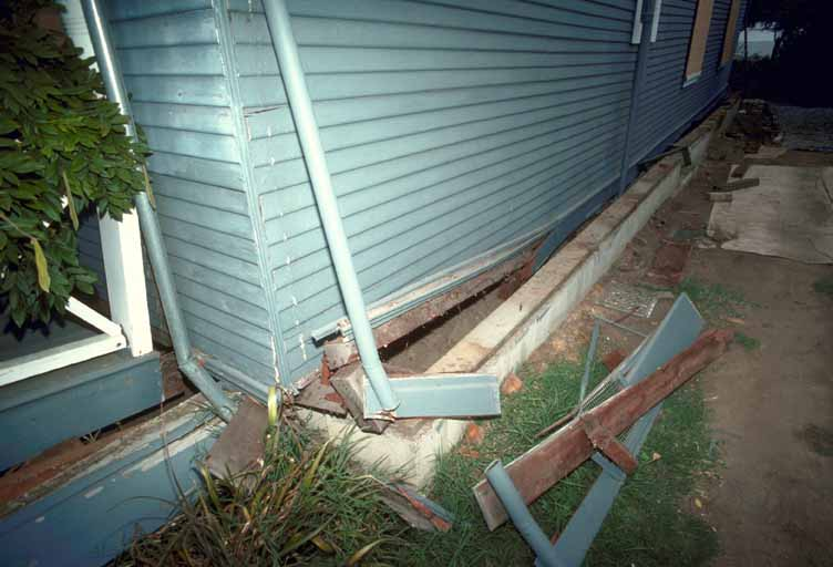 89. Houses not bolted down securely were easily dislodged from their foundations in downtown Watsonville.